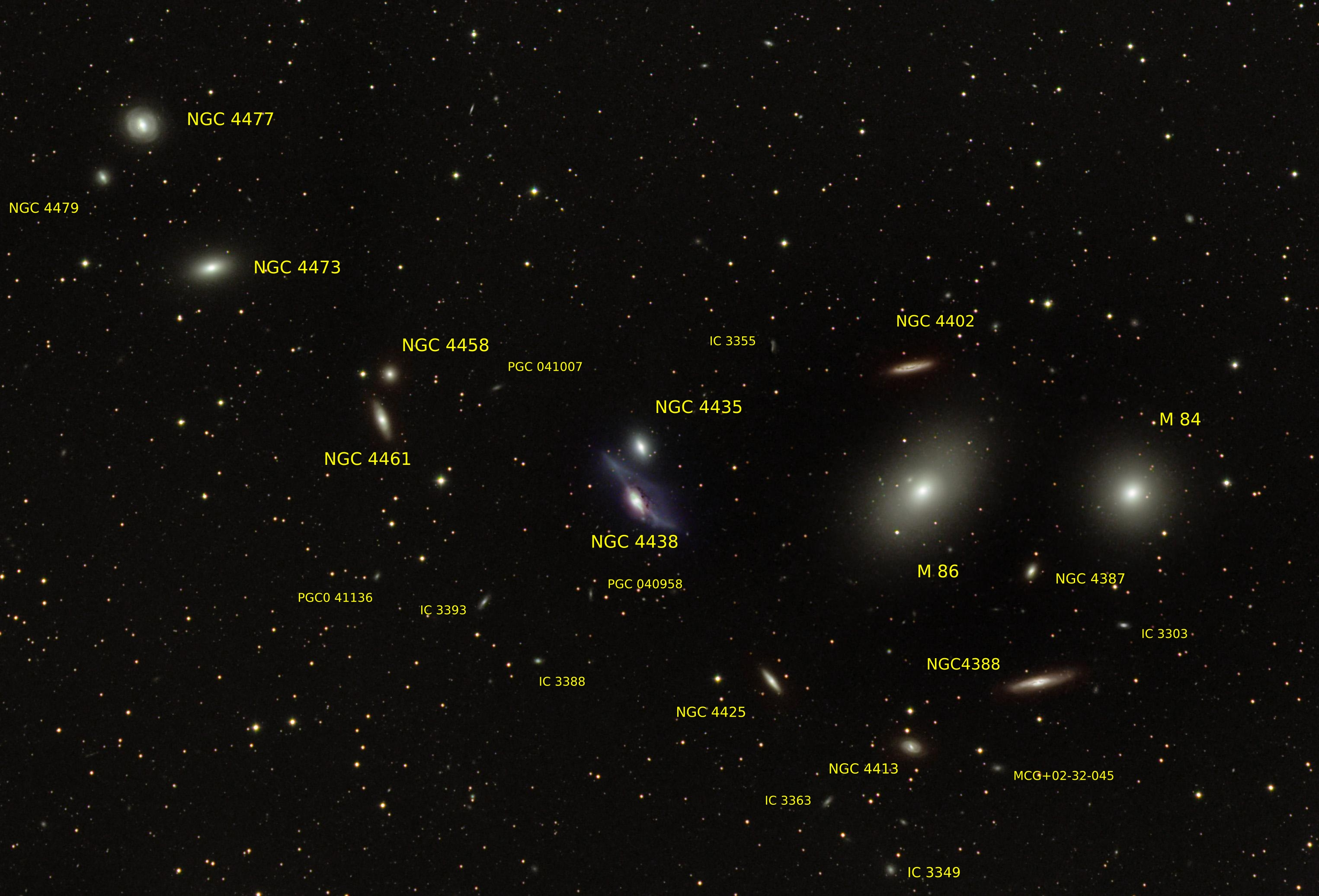 Markarian's chain with the name of the galaxies. Based on the image previously published by By Packbj (Own work) [CC-BY-SA-3.0 ], via Wikimedia Commons.